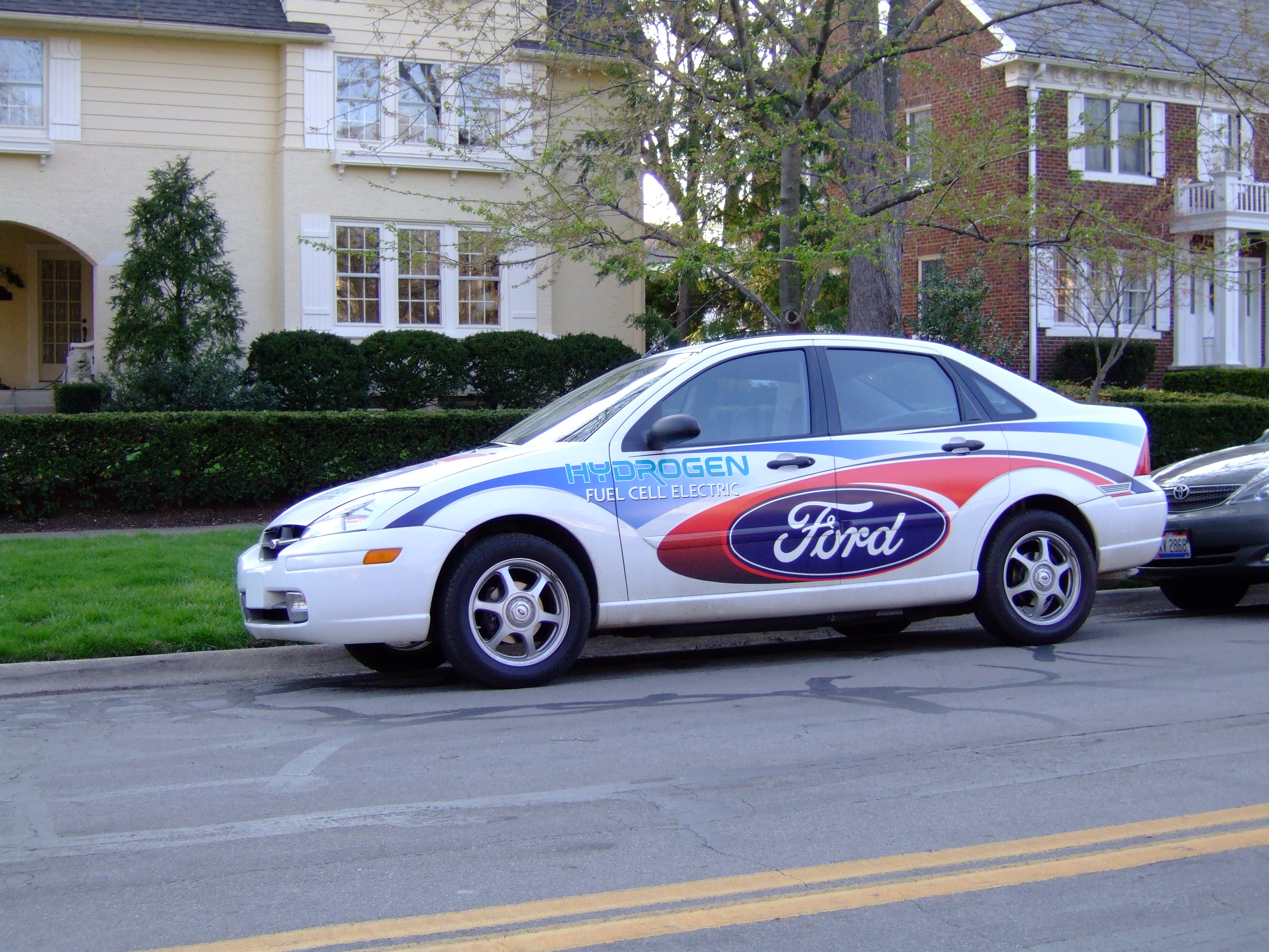 A hydrogen-powered Ford Focus sedan in Upper Arlington, Ohio, USA.